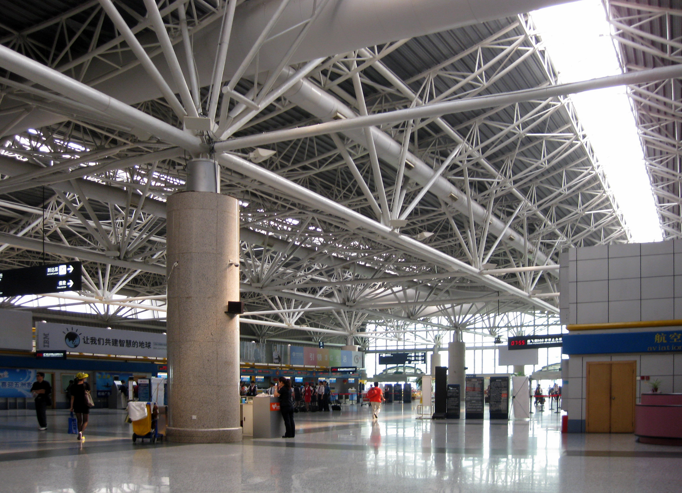 Nanjing Lukou Airport interior